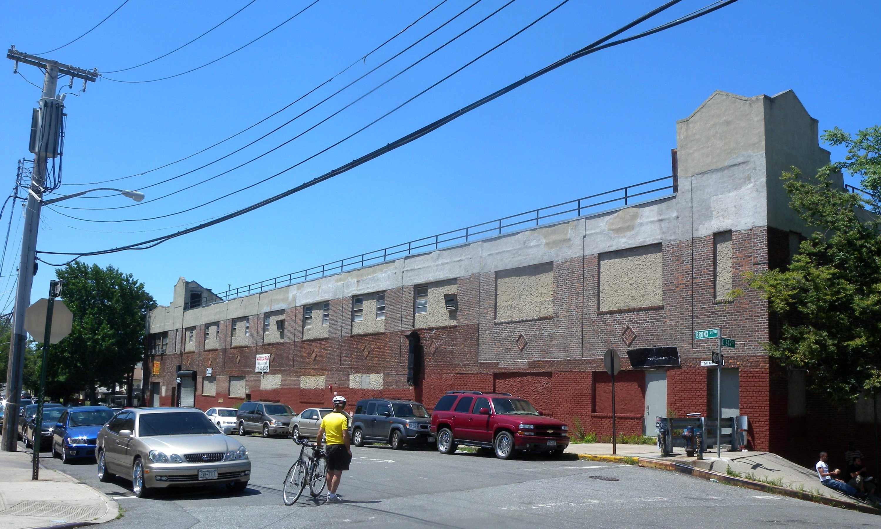 Looking west across 242nd Street and Bronx Boulevard as Joseph awaits his Drop duty on a sunny morning in front of a closed factory building.